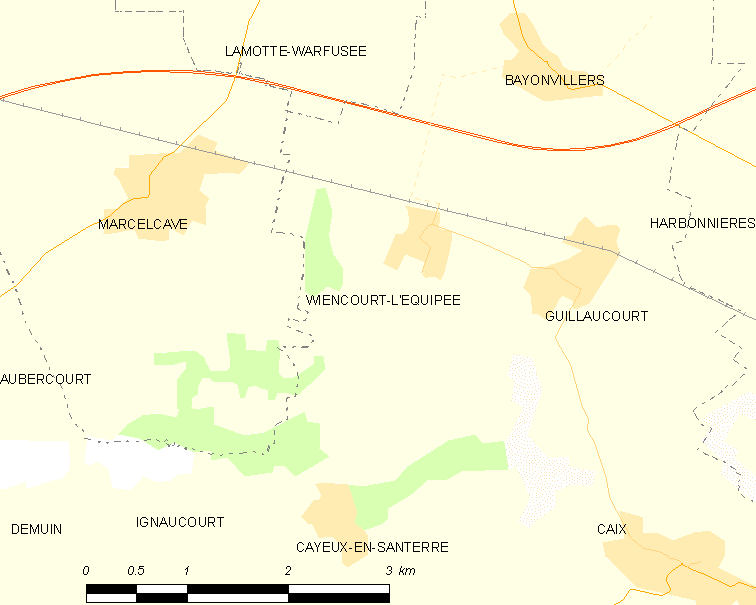 Map of French municipality Wiencourt-l'Équipée